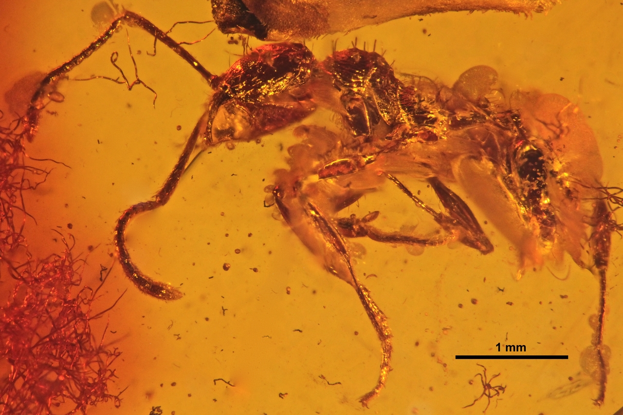 Profile view of a Aphaenogaster sommerfeldti worker. Specimen "MBIGB001"